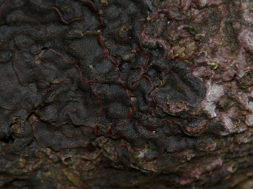 Dakaria_subovoidea(Cheilostomata) Japanese name:Tigokemusi Date;2009,03,29;Tanabe city, Wakayama prefecture, Japan Author;Keisotyo